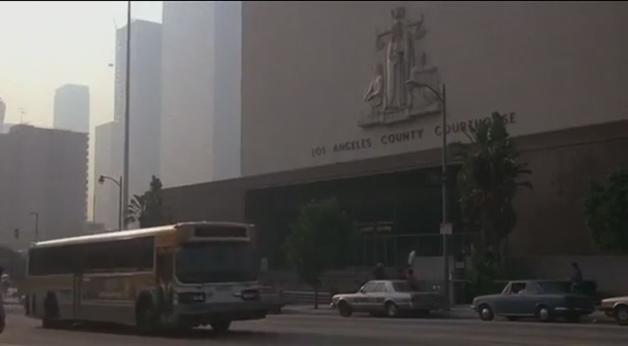 Stanley Mosk Courthouse in 1983. Known at the time as "Los Angeles County Courthouse".